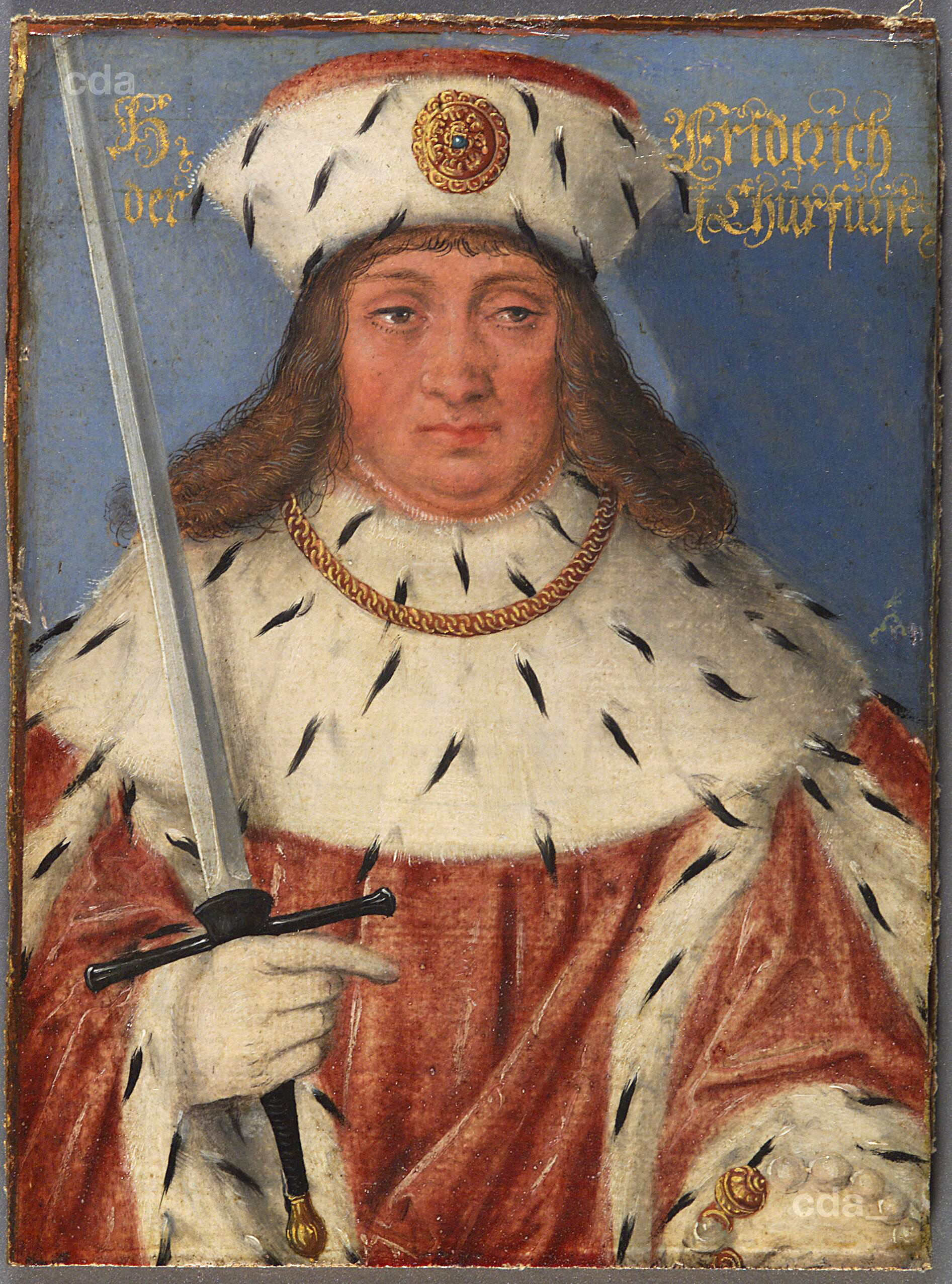 Friedrich I. the Strict, son of Friedrich the Brave of Meissen and Thuringia, died 1428 The portraits by Cranach the Younger have a uniform blue background and a cast-shadow to one side of the sitter. As such they stand out from the other works in the series. Furthermore all 48 images are painted on canvas and not paper. They were later laminated onto wood and in isolated cases cardboard. The very uniform appearance of the reverse of all the portraits belonging to the series suggests that they were attached to the auxiliary support after entering the Ambras collection. Kunsthistorisches Museum, Vienna